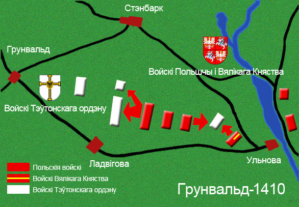 Author: Screen2